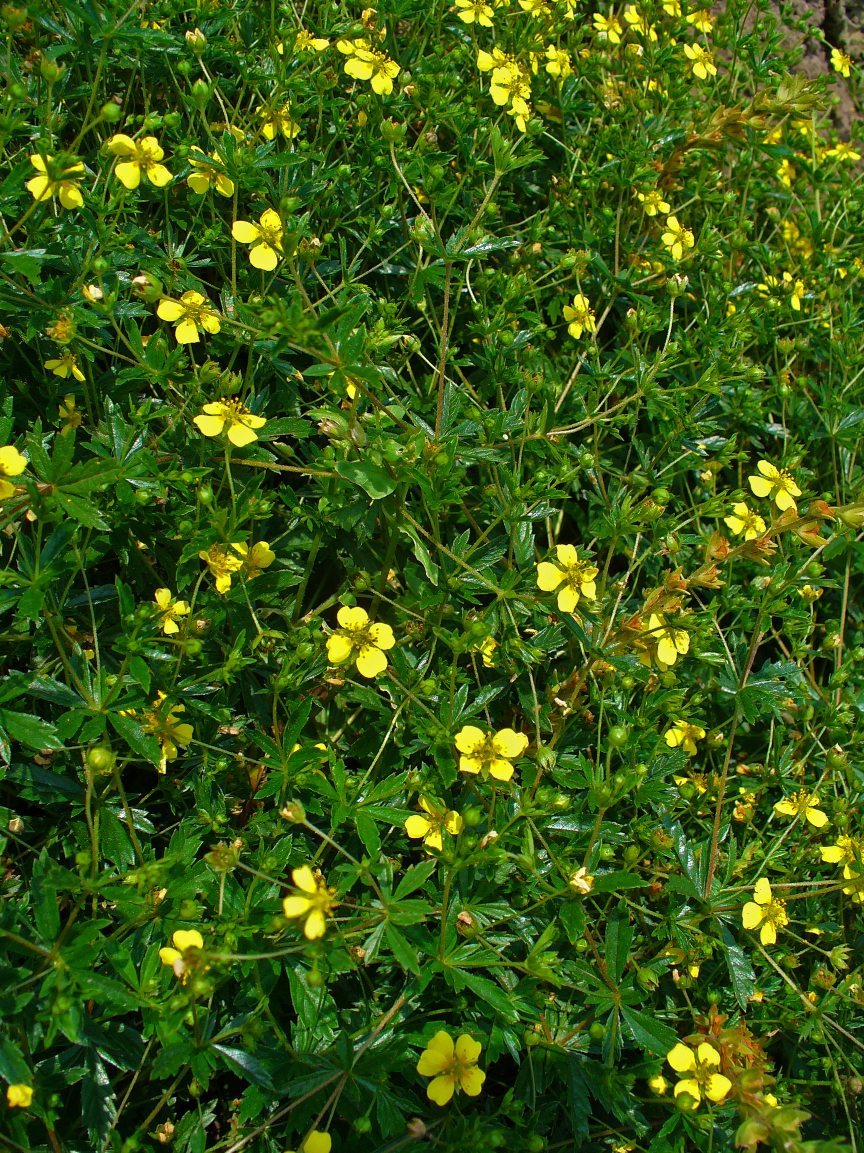 Potentilla erecta, Rosaceae, Common Tormentil, habitus.